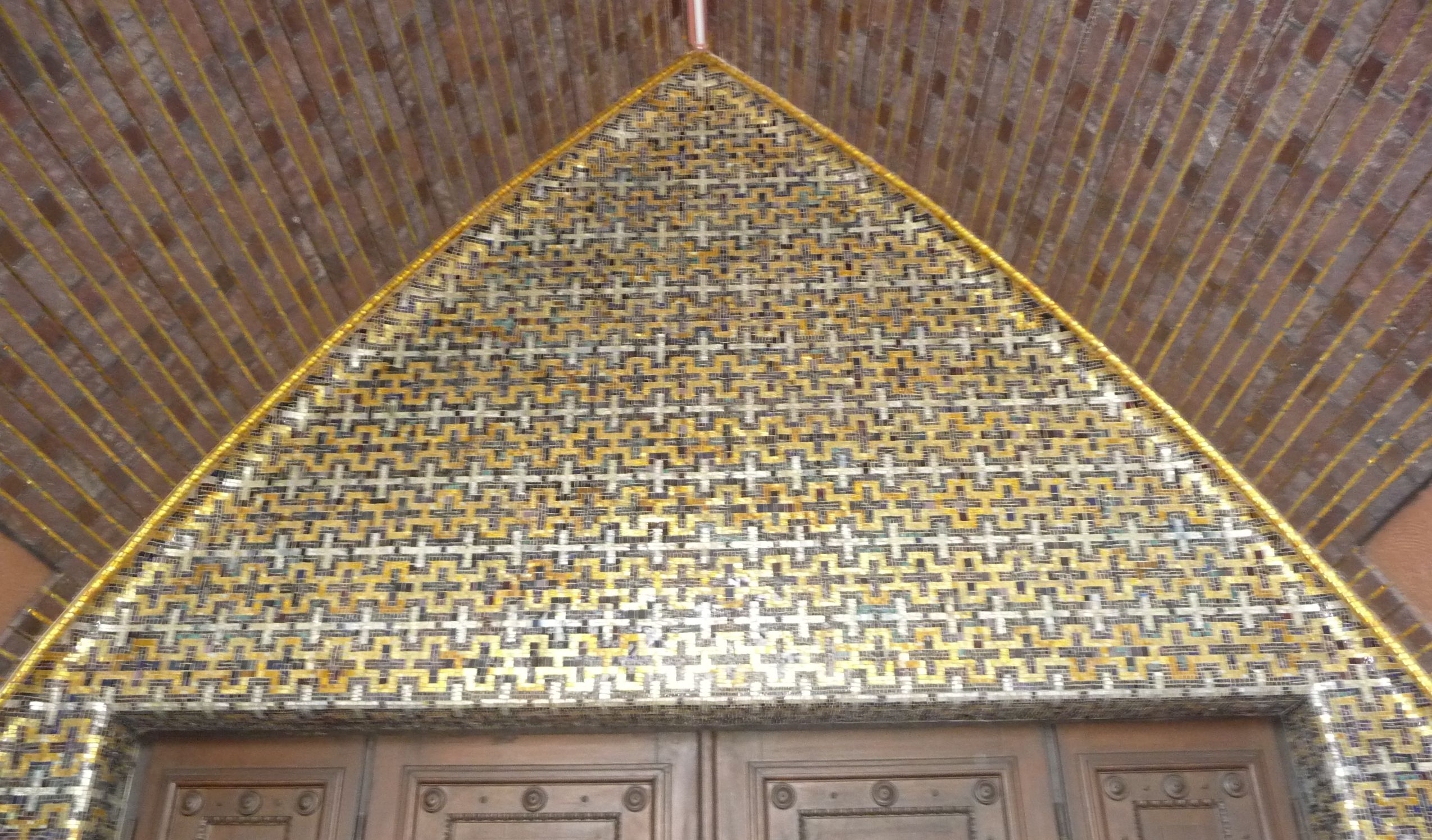 Kirche am Hohenzollernplatz, Berlin